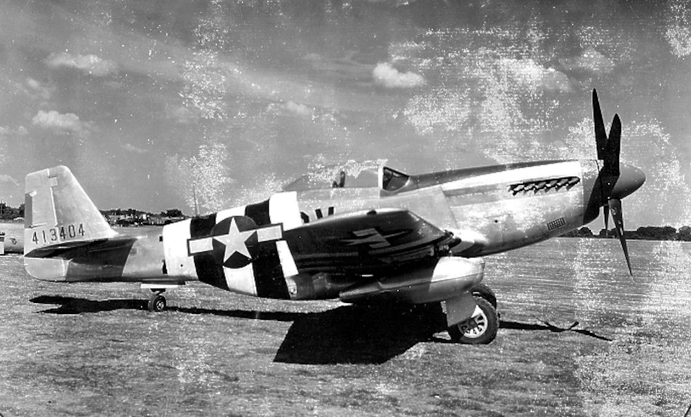 368th Fighter Squadron - North American P-51D-5-NA Mustang 44-13404, shown in D-Day markings. Note fuselage code "CV" obscured. (359th FG, 368th FS) lost Sep 12, 1944. MACR 8650